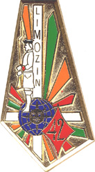 regimental badge of the 42st Infantry Regiment.